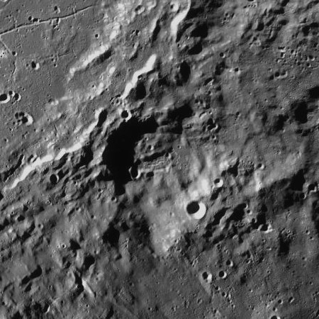 LRO WAC. Nefed'ev at center, Schrödinger at upper left